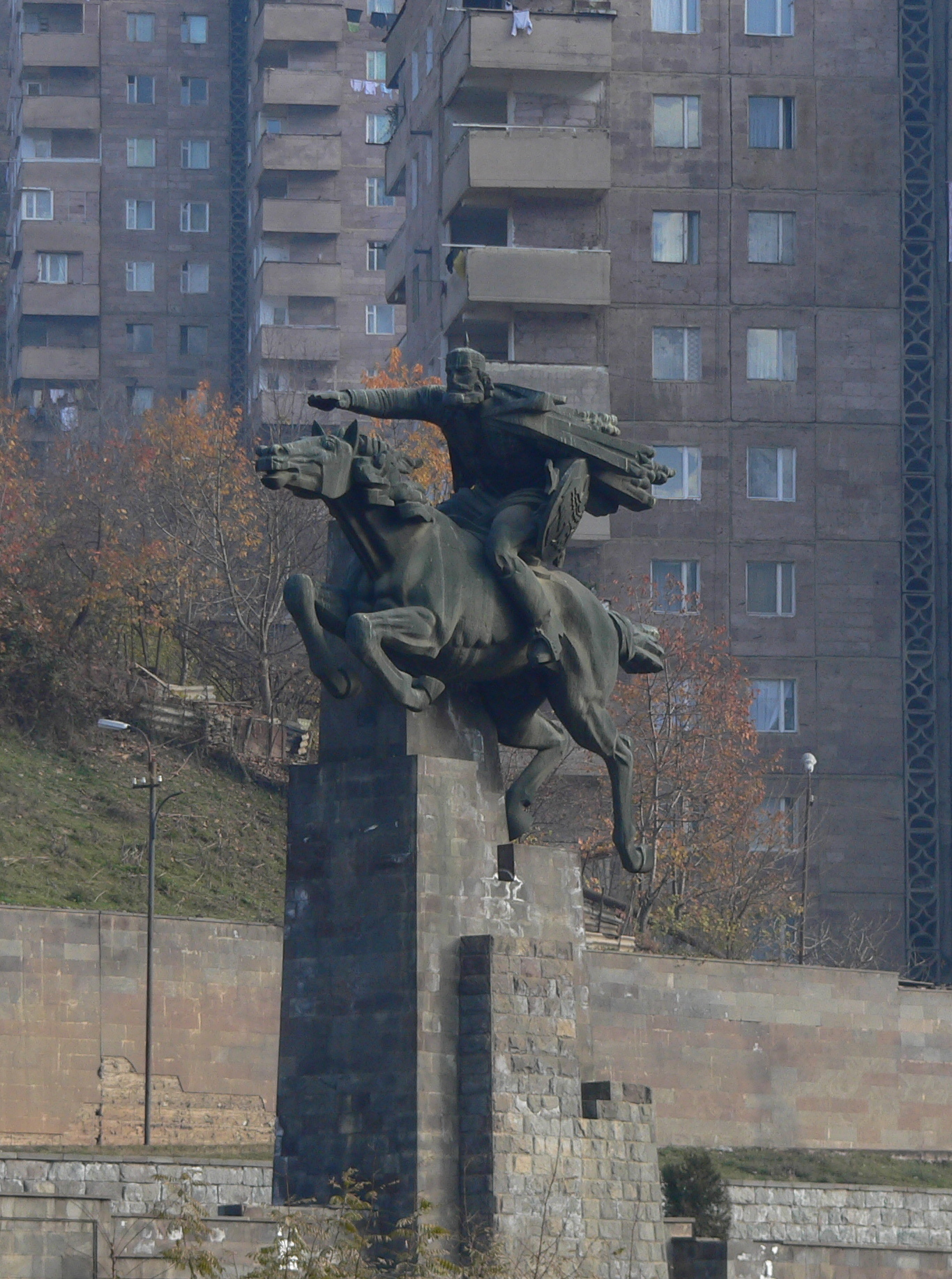 Kapan. Monument to David Bek.